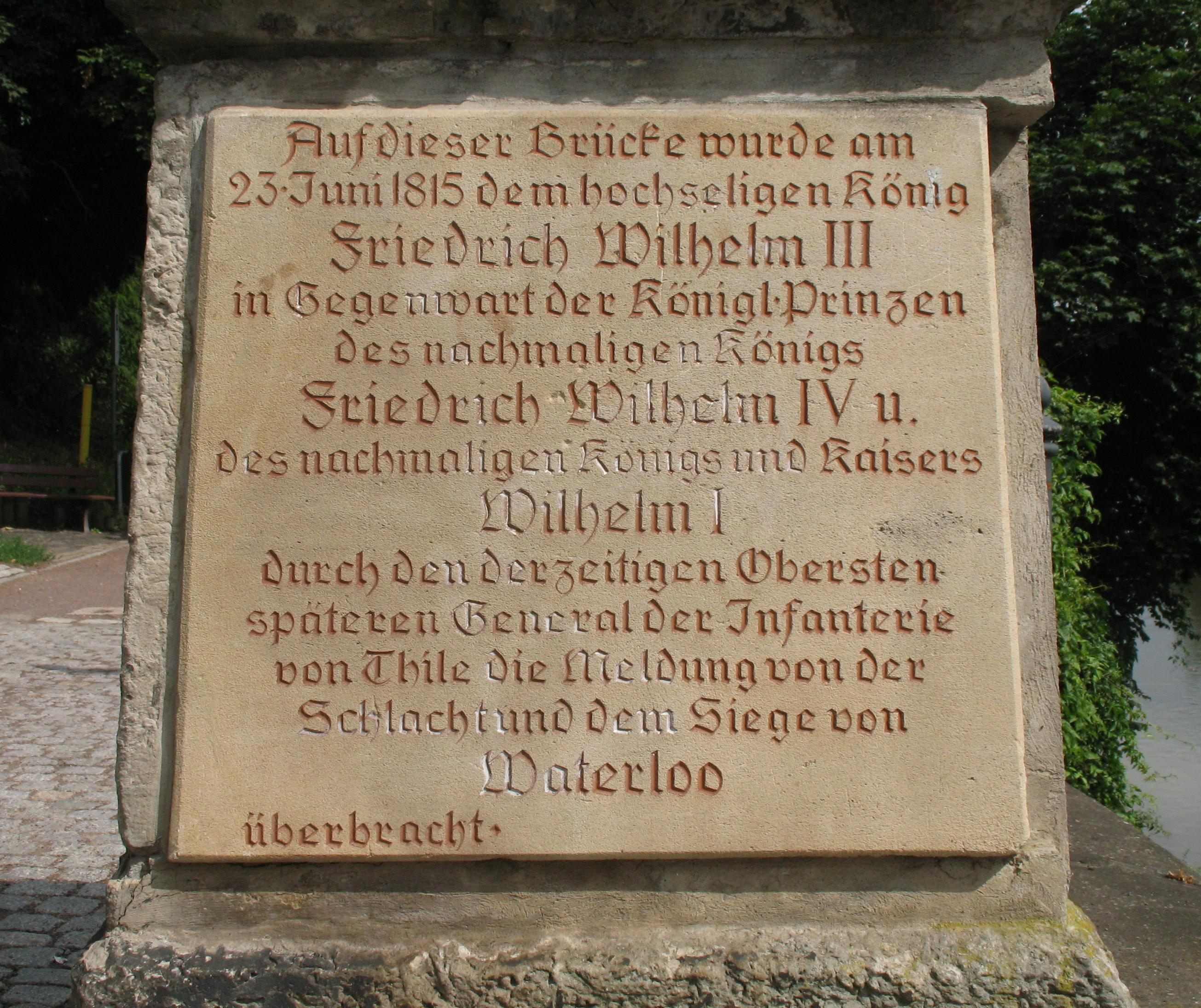 Waterloo memorial tablet in Merseburg in Saxony-Anhalt, Germany